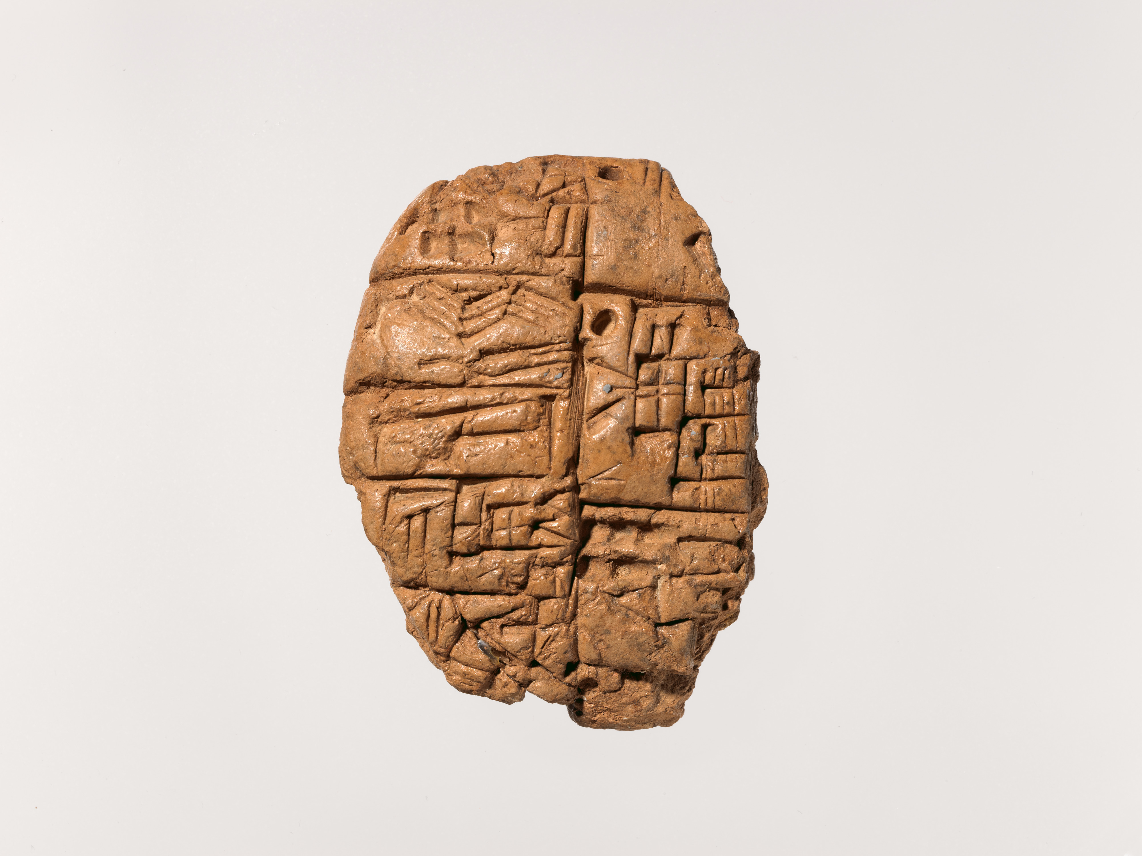 Cuneiform tablet; Clay-Tablets-Inscribed